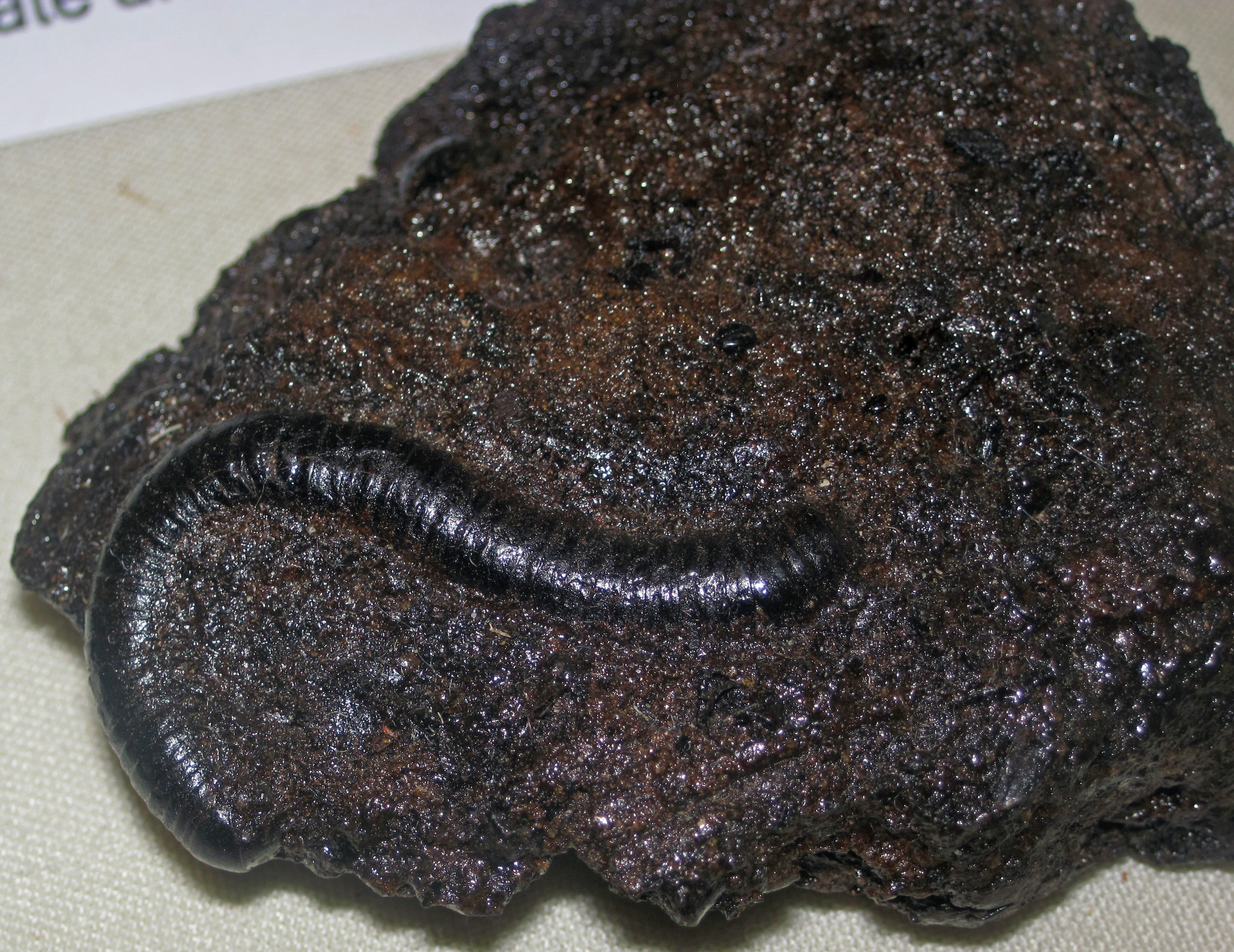 Fossil millipede in tar from the Pleistocene of California, USA. (Orton Geology Museum, Ohio State University, Columbus, Ohio, USA) From exhibit signage: Rancho La Brea Although the name of this site in downtown Los Angeles means "Ranch of Tar", the sticky material there is not tar but asphalt, formed by petroleum seeping to the surface and becoming thicker as volatiles evaporate. Mined for use on roofs and roads as early as the 1860s, the bones encountered were thought to be those of modern animals until the skull of a saber-toothed cat was found. Since the first scientific excavations in 1901, over 4 million fossils of over 650 species have been found, from beetles to mammoths, going back as far as 40,000 years. Classification: Animalia, Arthropoda, Myriapoda, Diplopoda Stratigraphy: La Brea Asphalt, Pleistocene Locality: La Brea tar pits, Los Angeles, California, USA